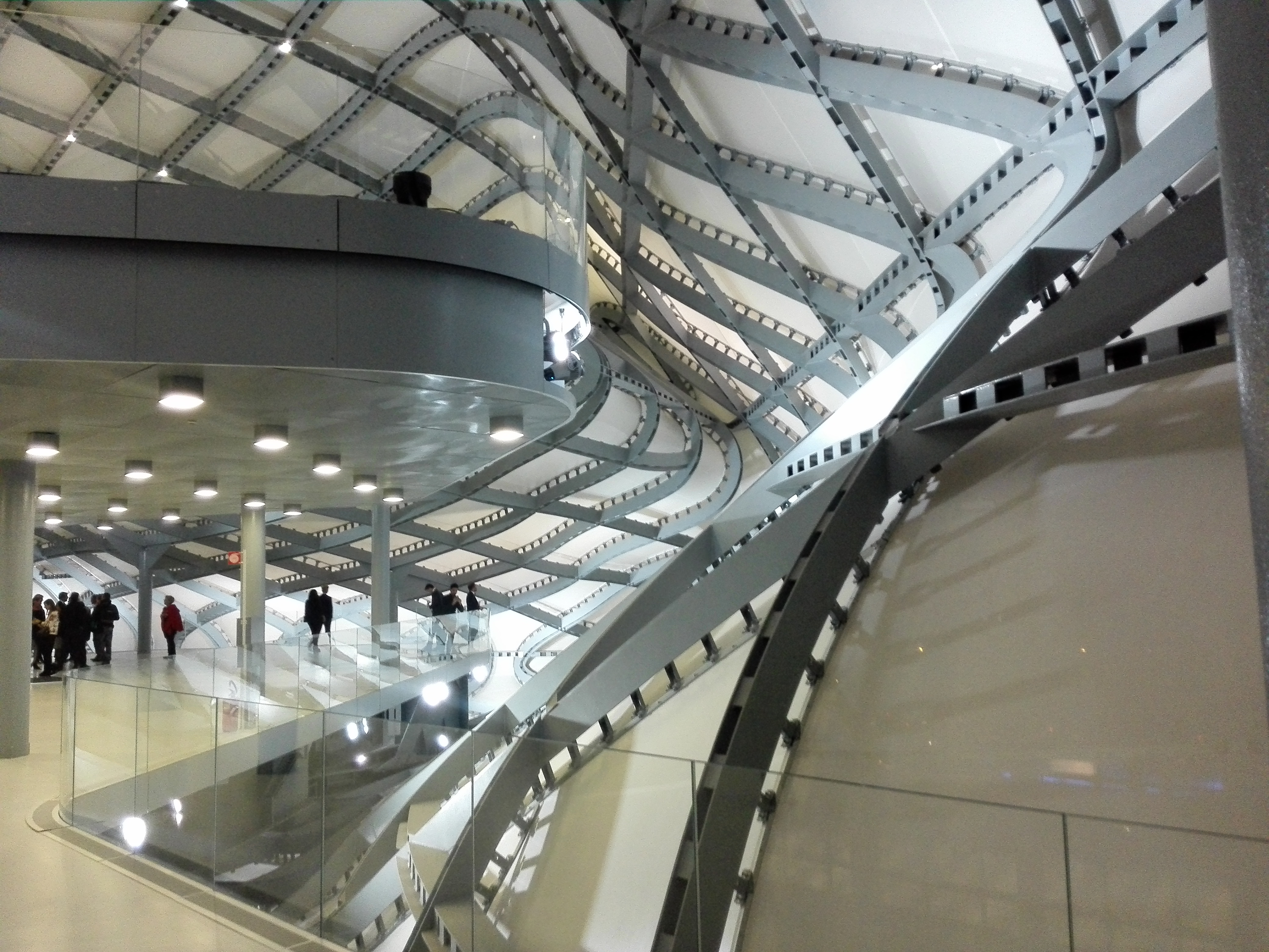 Interior of New Congress Center "La Nuvola" in Rome by Studio Fuksas